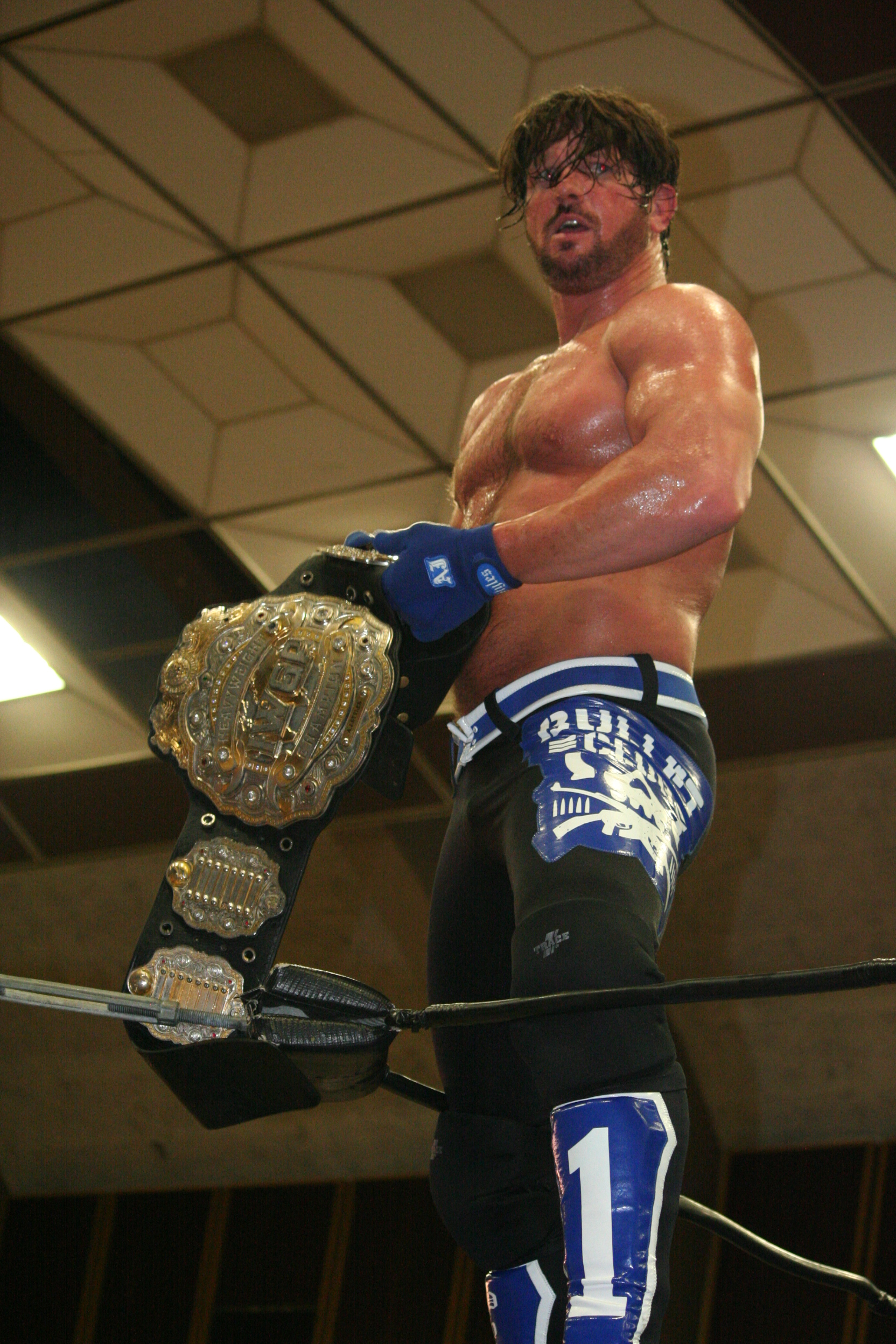 A.J. Styles